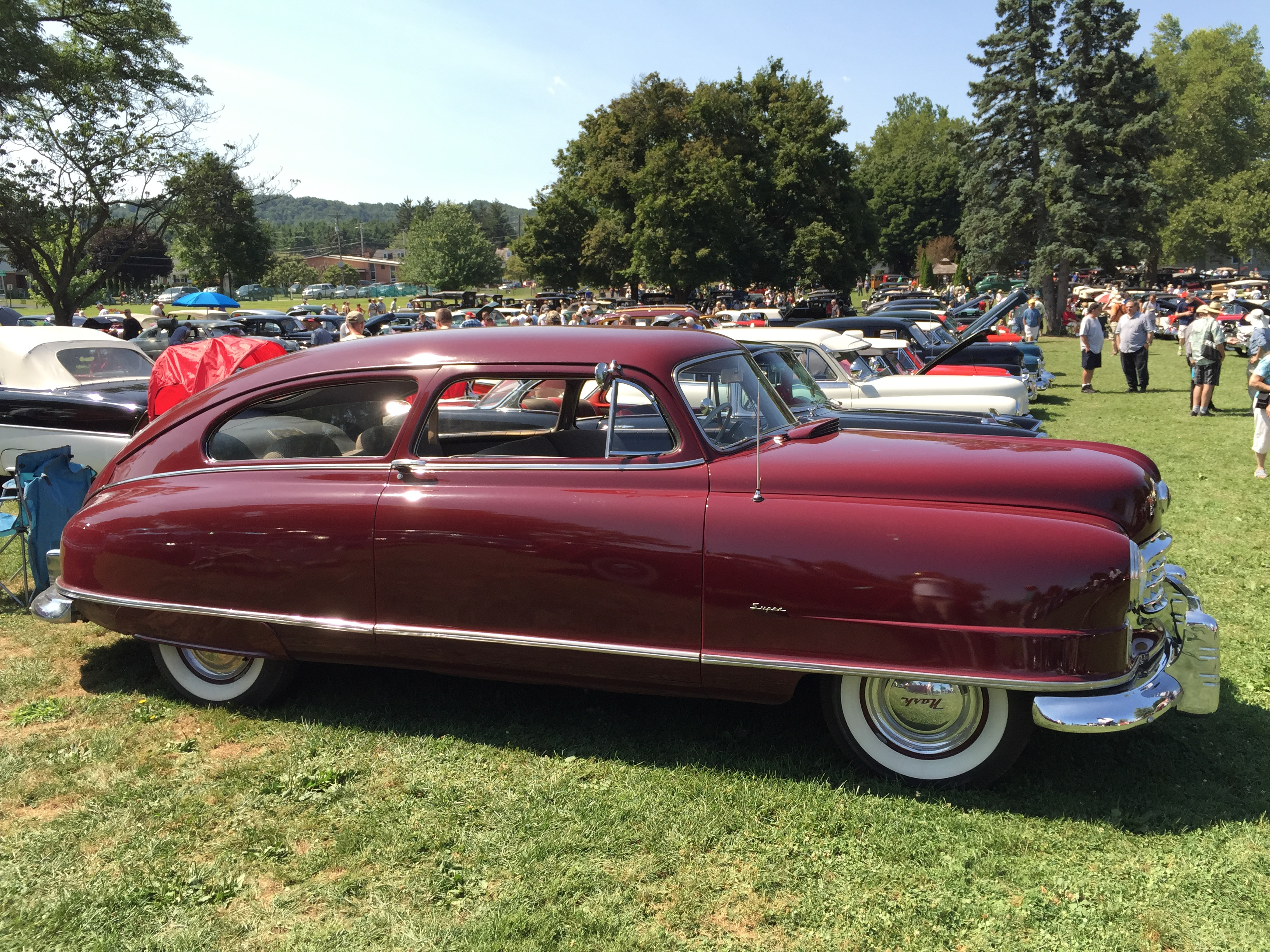 1949 Nash 600 Super two-door, a full-size car and a fresh new design after World War II in the aerodynamic Airflyte series. The solid unit-body shape riding on a 112-inch (2,845 mm) wheelbase was the most streamlined form on the road at the time. This car is in the "base" Super series (moving up in trim were the Super Special and the top-line Custom). All had cavernous interiors featuring Nash's "Super-Lounge" design, a swept away dashboard, and for the driver, an unusual "Uniscope" instrument pod mounted on the steering column. Picture taken at the 52nd Annual "Das Awkscht Fescht" held in Macungie, Pennsylvania.